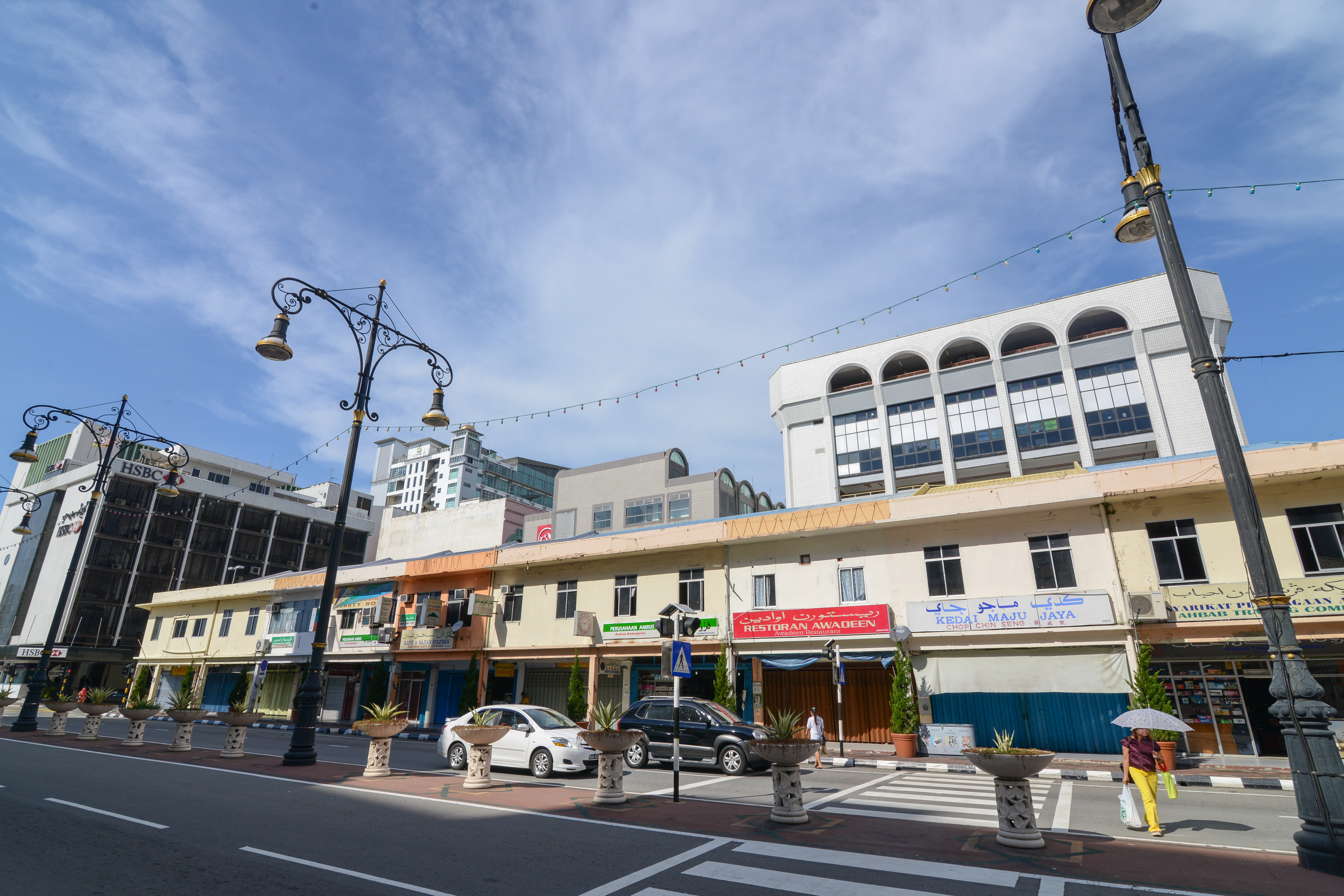 Bandar Seri Begawan is the capital and largest city of the Sultanate of Brunei. Bandar Seri Begawan has an estimated population of 20,000, and including the whole Brunei-Muara District, the metro area has an estimated population of 279,924.